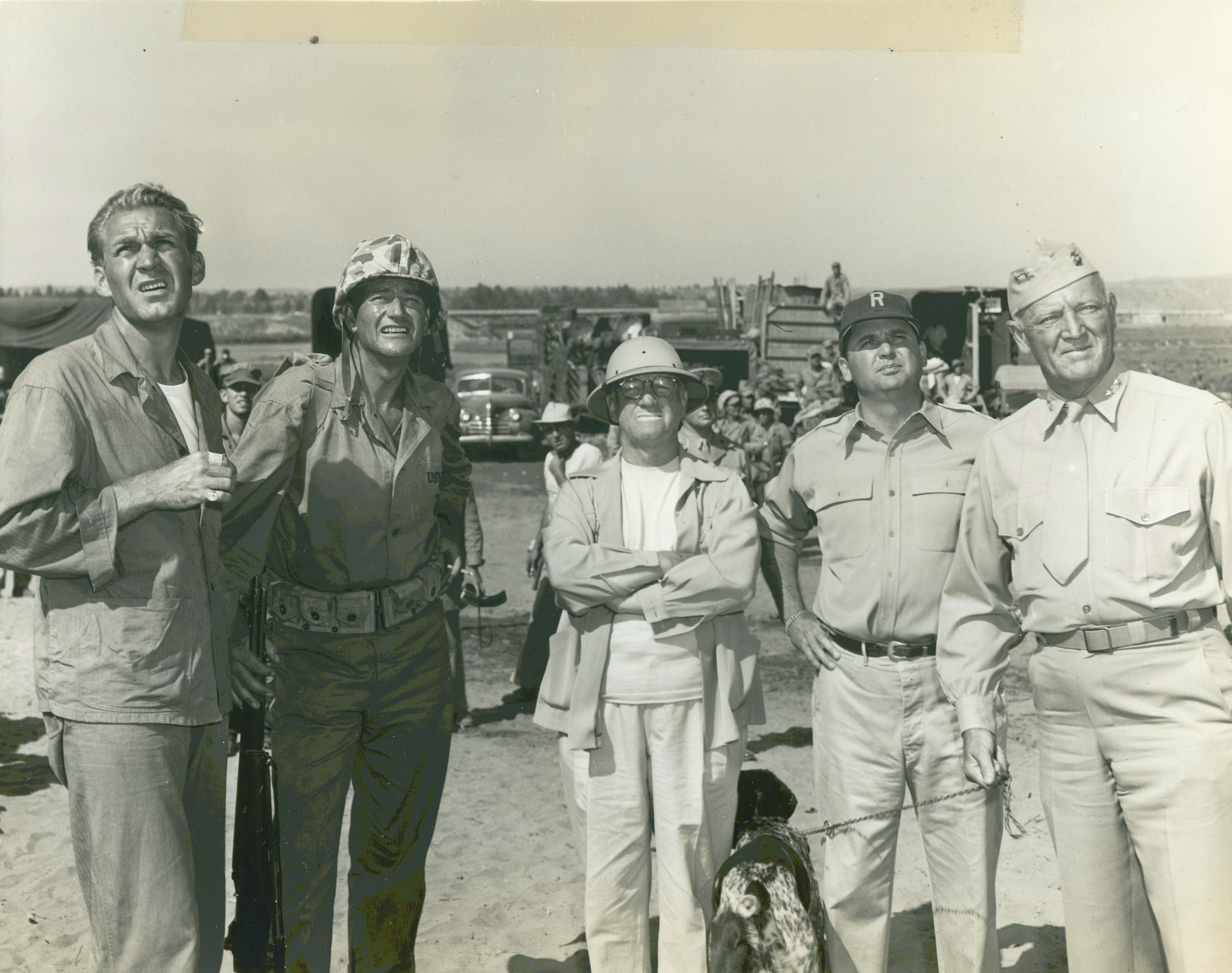 Major General Graves B. Erskine on the set of Sands of Iwo Jima (1949). Erskine appears in this photograph with stars Forrest Tucker and John Wayne. From the Graves B. Erskine Collection (COLL/3065) at the Marine Corps Archives and Special Collections; OFFICIAL USMC PHOTOGRAPH